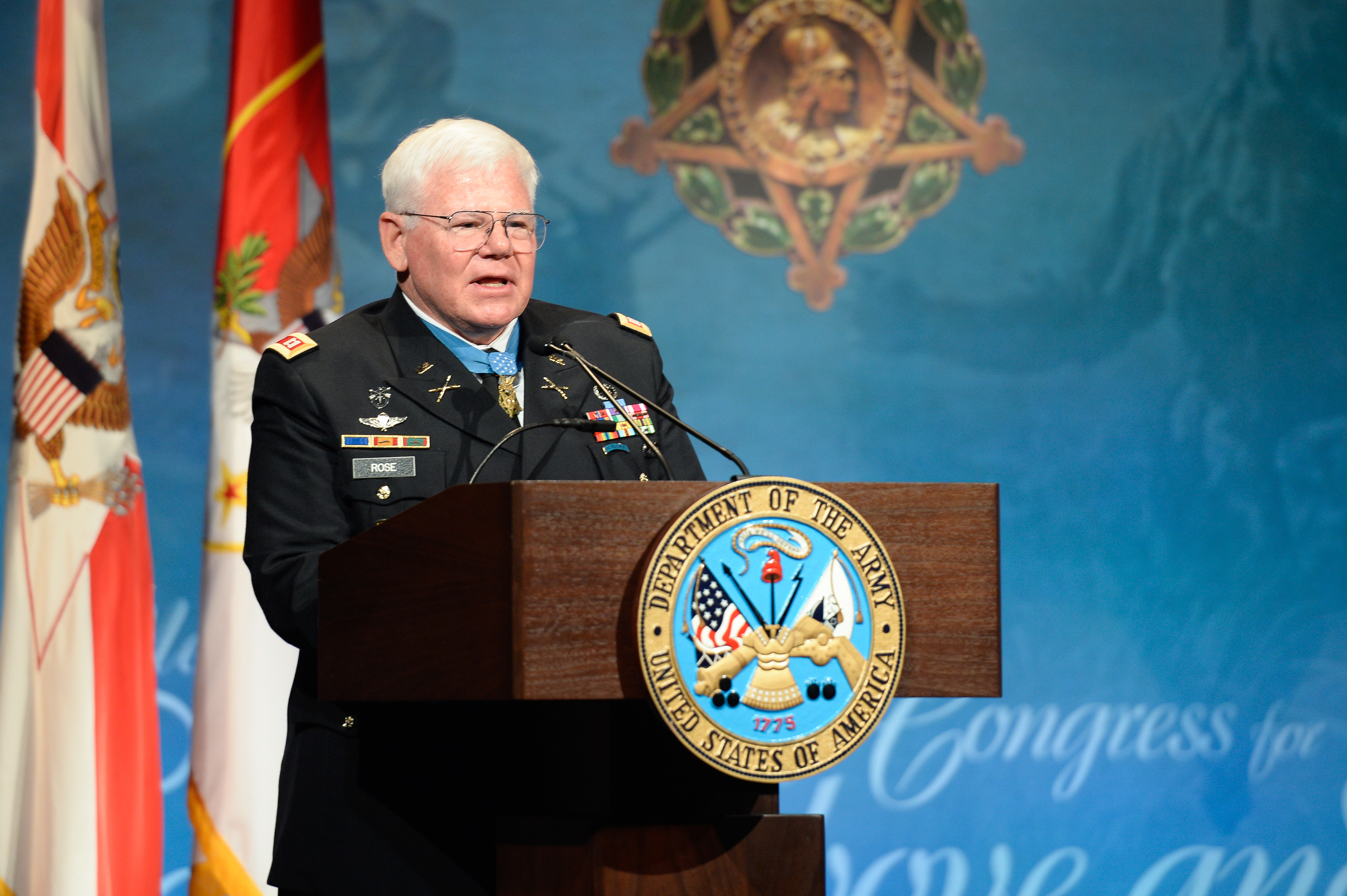 Retired U.S. Army Capt. Gary M. Rose gives his remarks during his Medal of Honor Induction Ceremony at the Pentagon, in Arlington, Virginia, Oct. 24, 2017. Rose was awarded the Medal of Honor Oct. 23, 2017, for actions during Operation Tailwind in Southeastern Laos during the Vietnam War, Sept. 11-14, 1970. Then-Sgt. Rose was assigned to the 5th Special Forces Group (Airborne) at the time of the action. (U.S. Army photo by Spc. Tammy Nooner)